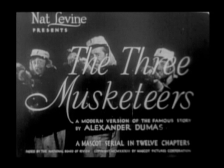 Screenshot of the title sequence to episode 12 of the film serial The Three Musketeers (1933).